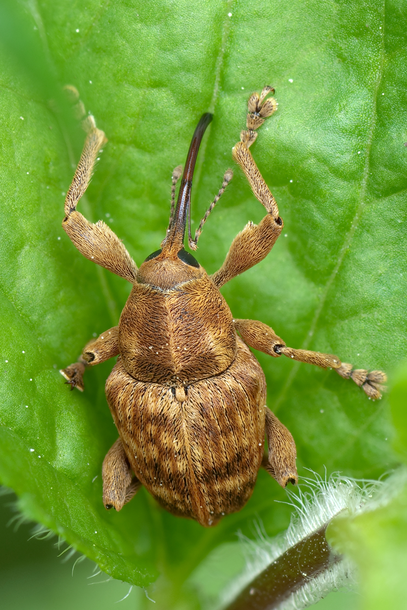 Curculio nucum